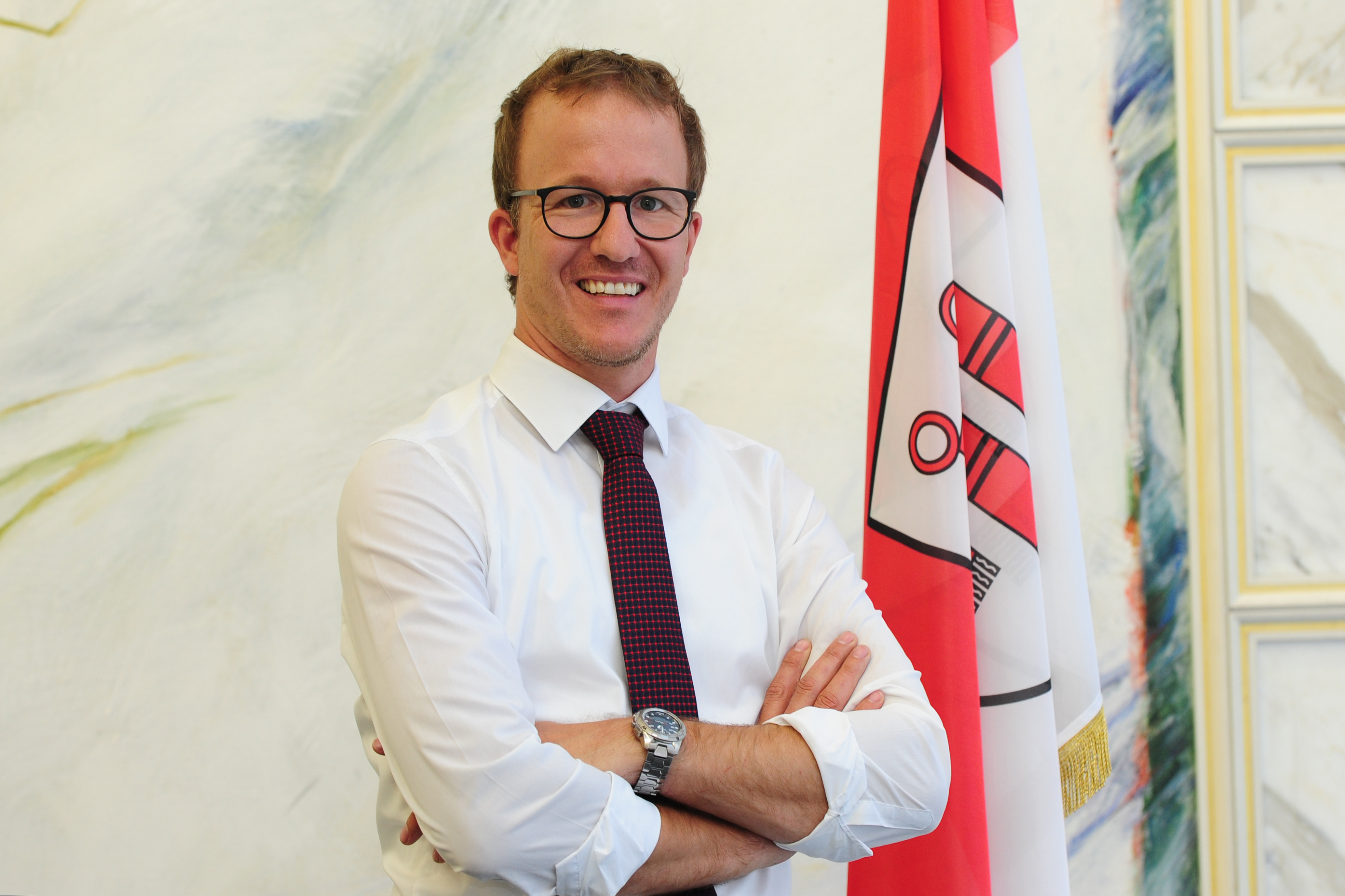 Christian Gantner is a member of the state parliament of Vorarlberg, Austria.